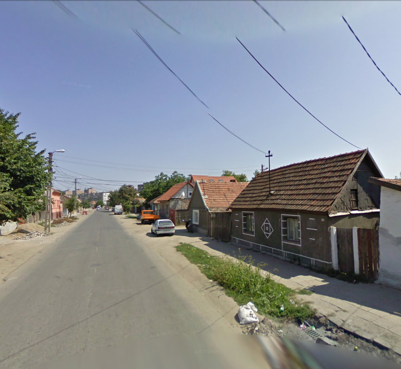 arad